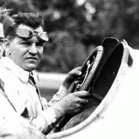 picture of my great grandfather, originally in the Library of Congress, 1919. as such i hope the copyright has lapsed